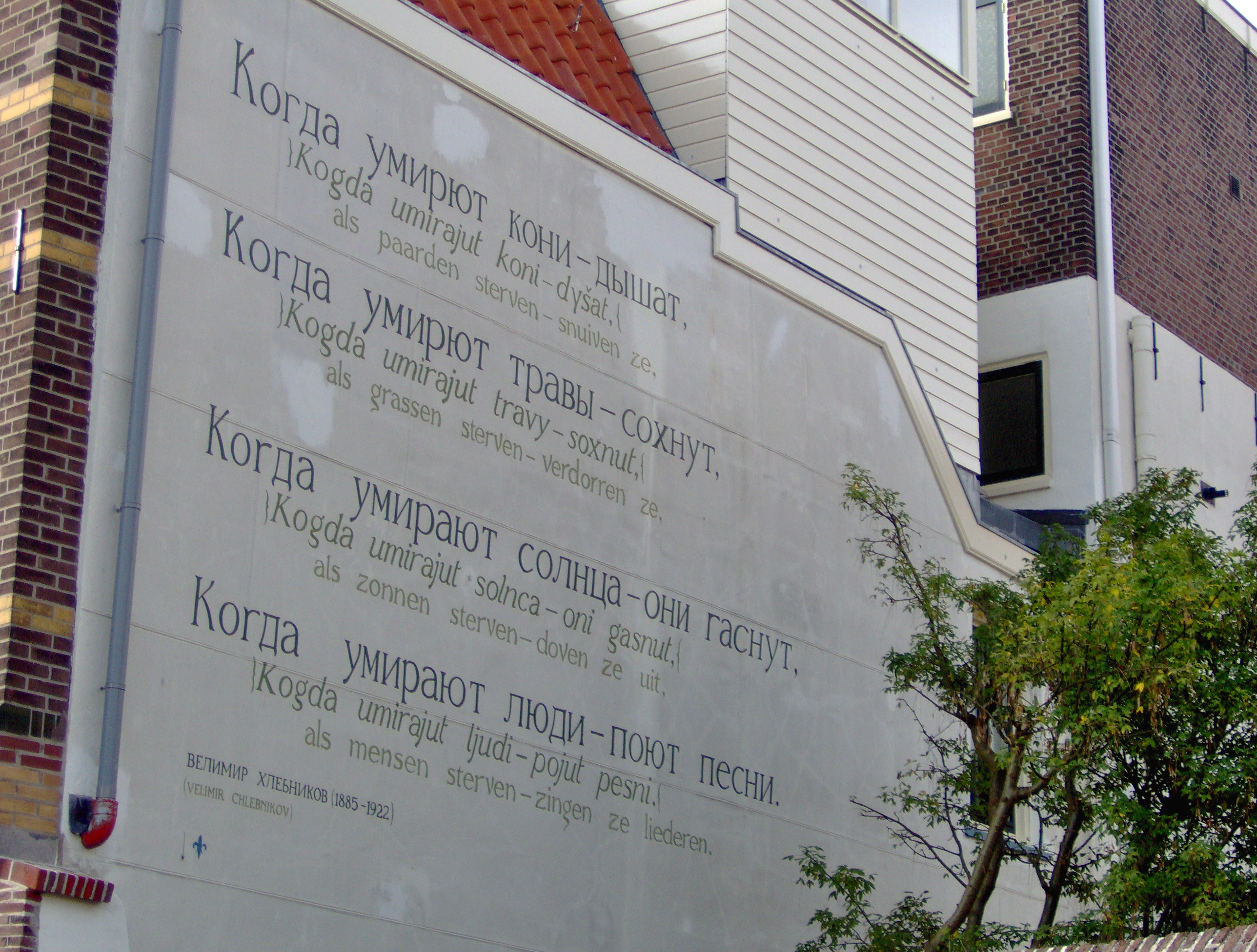 The poem Когда умирают кони... (When horses die...) of the Russian poet Velimir Khlebnikov on the side wall of the building at the Apothekersdijk 26 in Leiden, The Netherlands